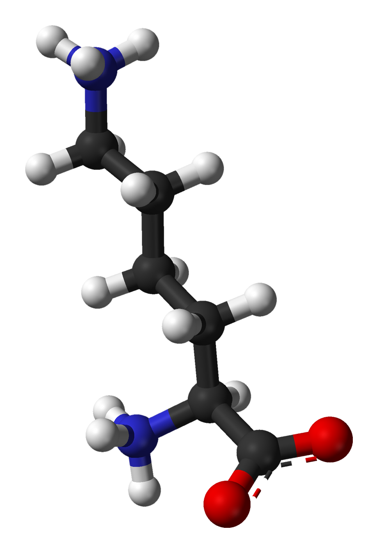 Ball-and-stick model of the L-lysine cation, (S)-2,6-diammoniohexanoate, [C6H15N2O2]+, from the crystal structure of L-lysine monohydrochloride dihydrate. X-ray crystallographic data from Acta Cryst. (1972). B28, 3207-3214. Model constructed in CrystalMaker 8.1. Image generated in Accelrys DS Visualizer.